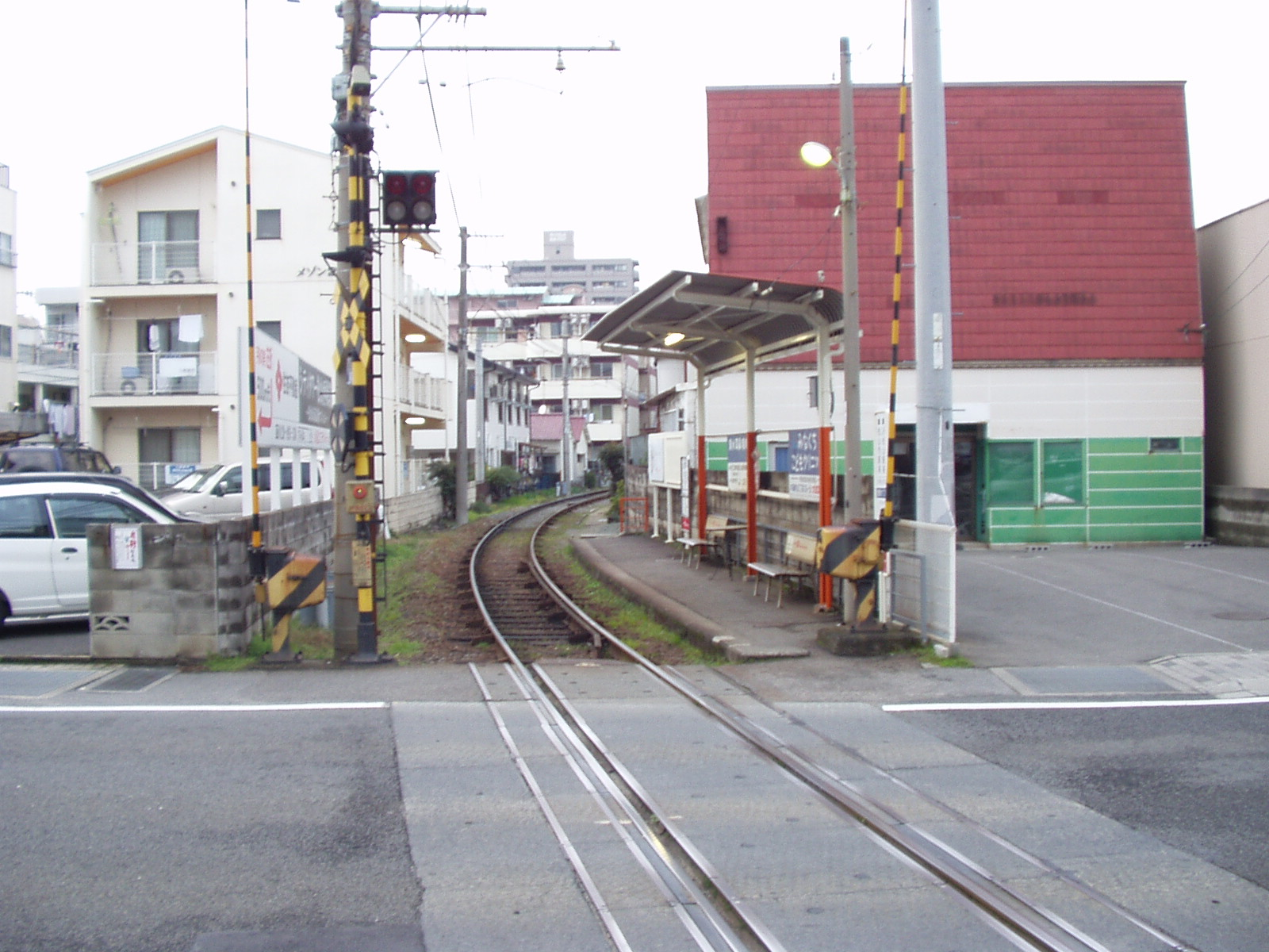 Iyo RailWay Jhohoku Line Kayamachi 6Chome Station at Matsuyama City Japan